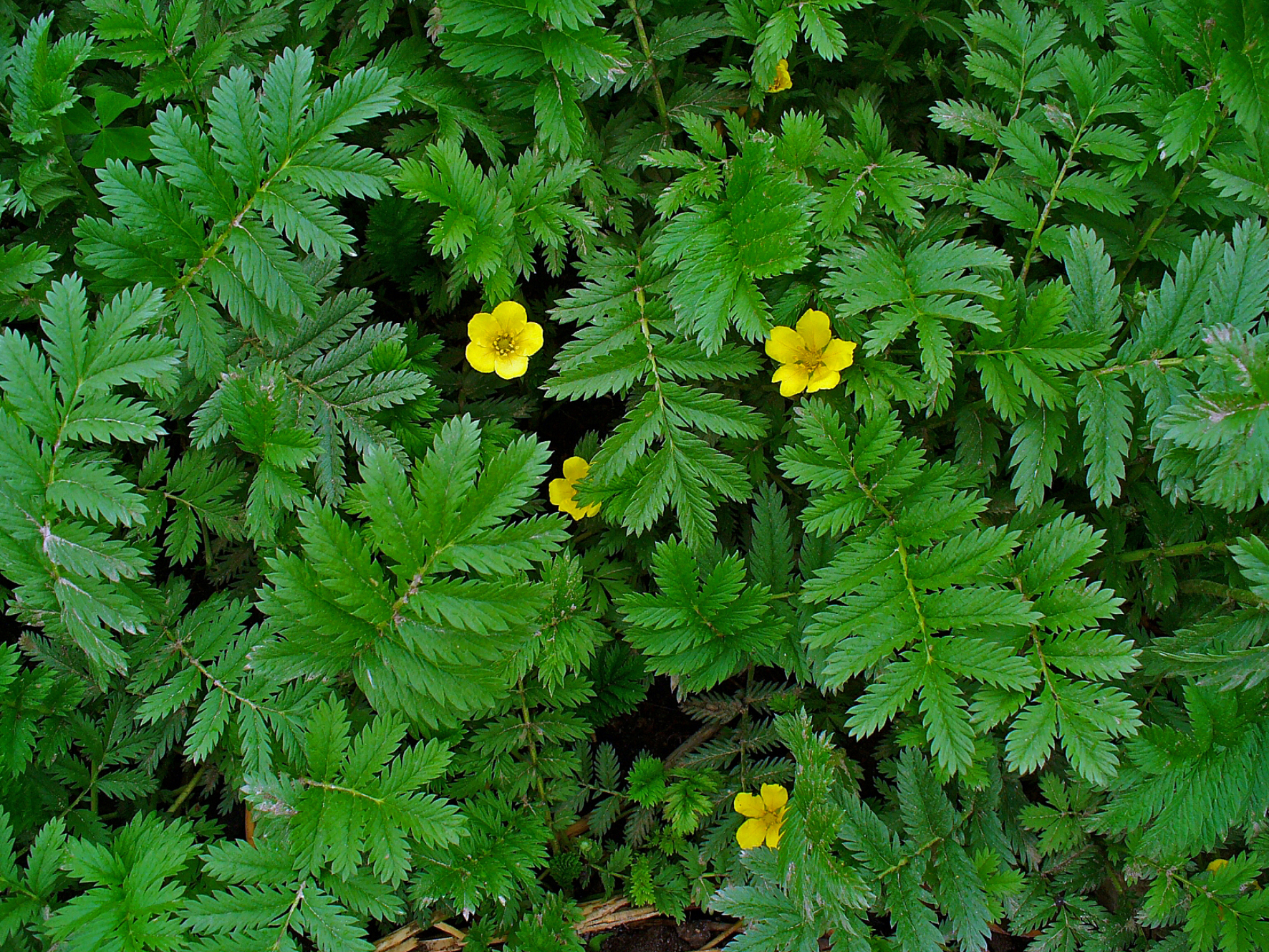 Potentilla anserina, Rosaceae, Common Silverweed, Silverweed Cinquefoil, habitus.